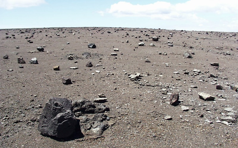 From the USGS description: View is near Crater Rim Drive about 500 m from Halema`uma`u looking south. Lava blocks thrown from Halema`uma`u during a series of steam-driven explosions in 1924 litter the caldera floor, covering deposits of the Keanakako`i Ash Member erupted during much larger explosions that ended in A.D. 1790. The block in lower left is about 0.5 m in diameter. Photograph by S.R. Brantley on August 14, 1998